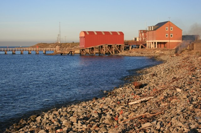 Former Lifeboat Station The Teesmouth lifeboat station closed in 2006. Hartlepool and Redcar lifeboats now cover the mouth of the Tees. The closure was not without controversy